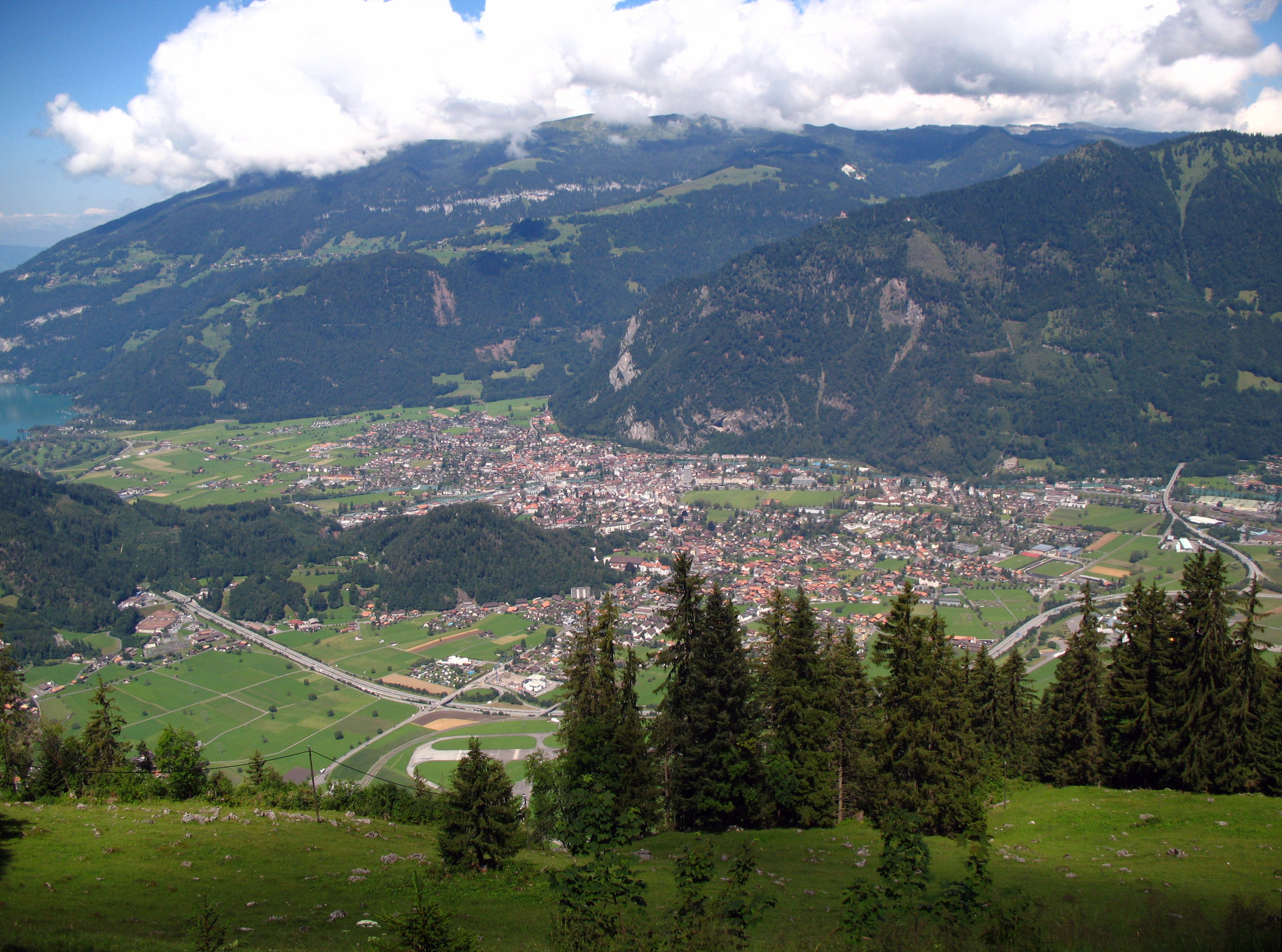 View of Interlaken and Matten from the Schynige Platte Railway, Switzerland